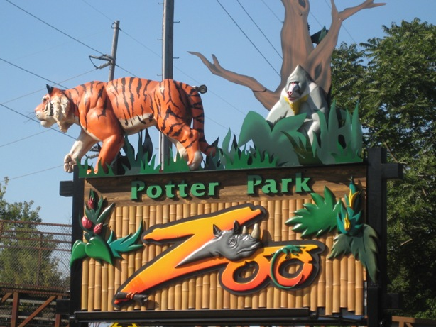 My own photograph Potter Park Zoo, Lansing, MI - Entrance Sign from Pennsylvania Ave - taken September 2009